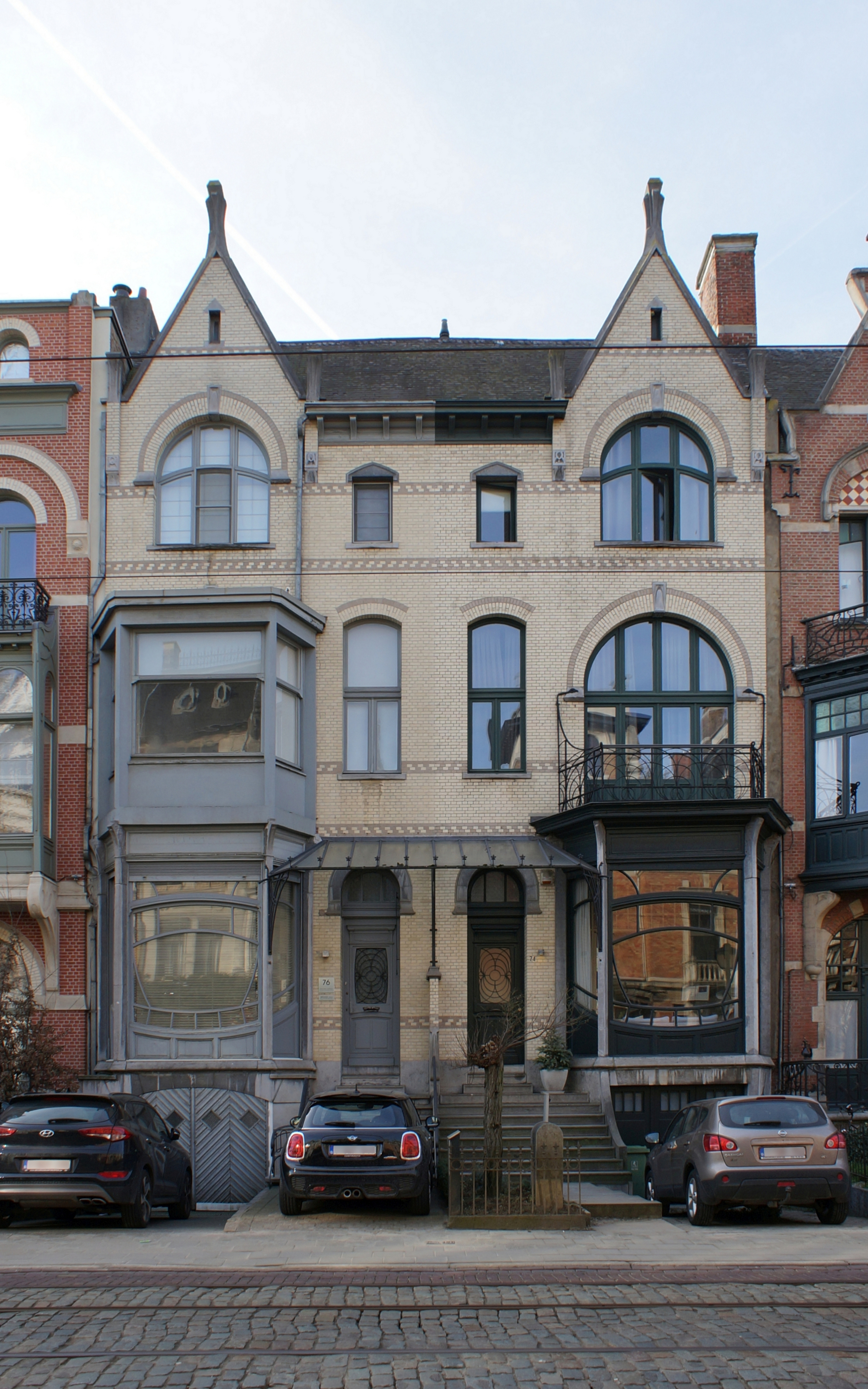 Homes on the Cogels Osylei 76-74 - Antwerp - The artwork of architect Jules Hofman